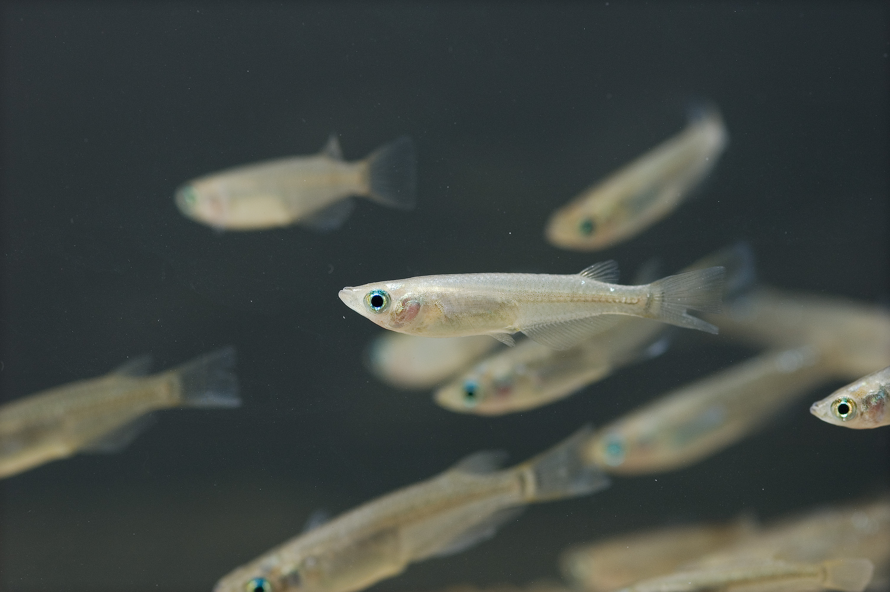 Medaka(Japanese killifish, or Japanese rice fish), Oryzias latipes, from Hamamatsu, Shizuoka, Japan.